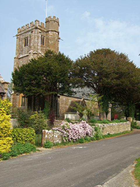 St Michael's parish church, Naller's Lane, Askerswell, Dorset, seen from the southwest, showing the 15th-century west tower